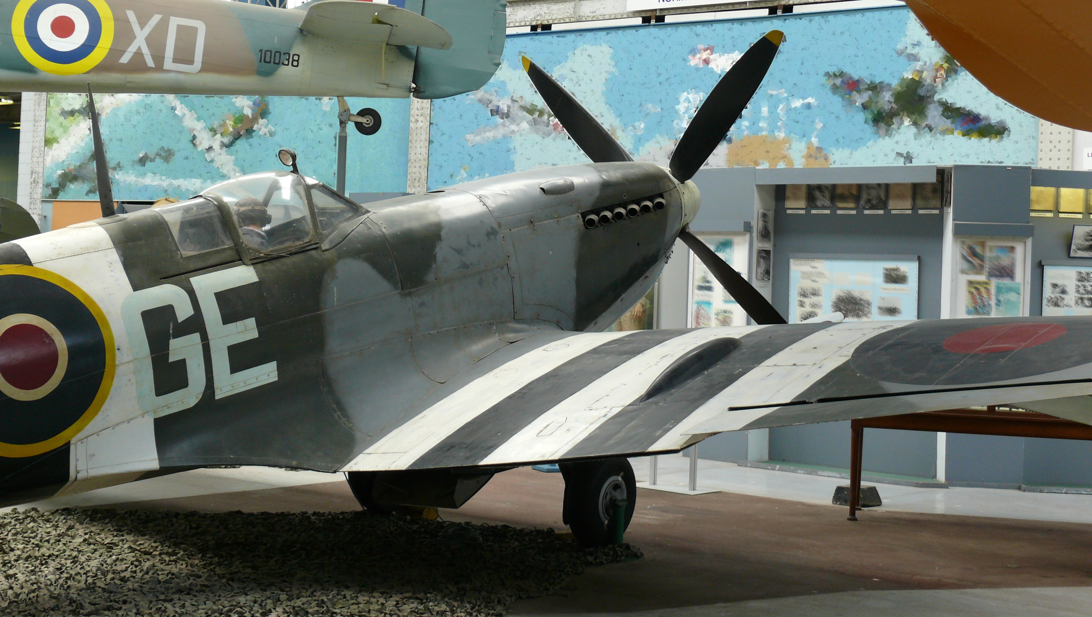 Supermarine Spitfire Mk IXc in the Royal Military Museum at the Jubelpark, Brussels.It is painted to look like 'MJ360/GE-B' (RAF No.349 (Belgian) Sqn) but actually this was MJ783 when serving with the RAF.